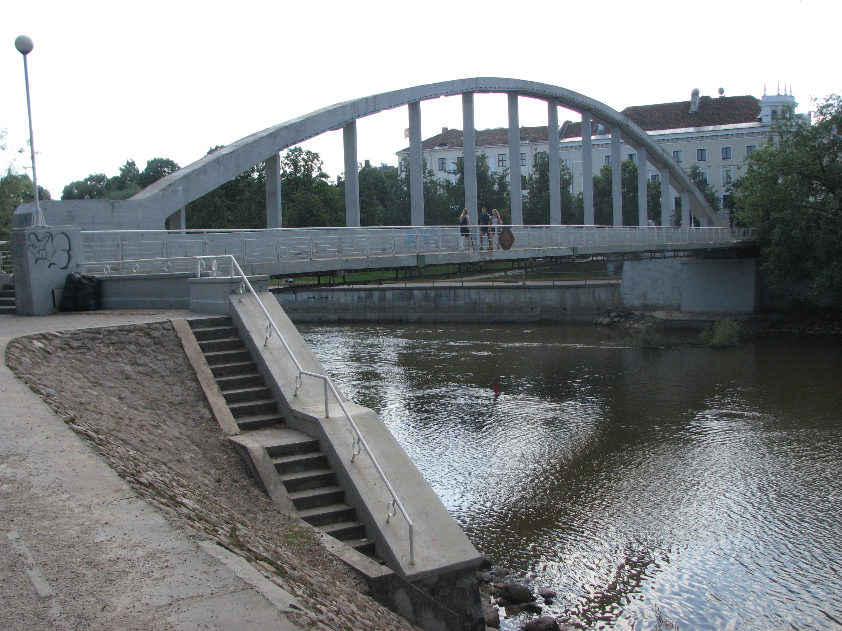 Pedestrians arch bridge in Tartu over EmaJõgi (river), Estonia